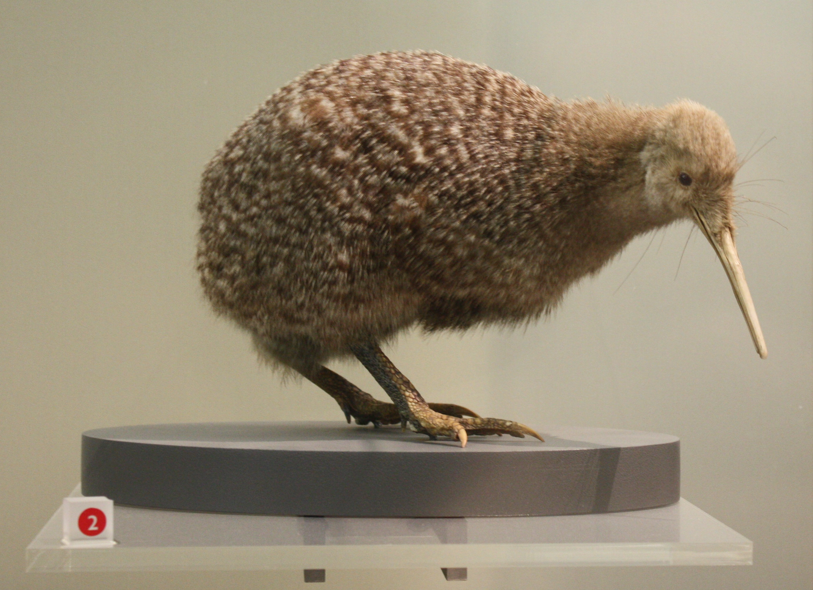 Little spotted kiwi, Apteryx owenii, Auckland War Memorial Museum